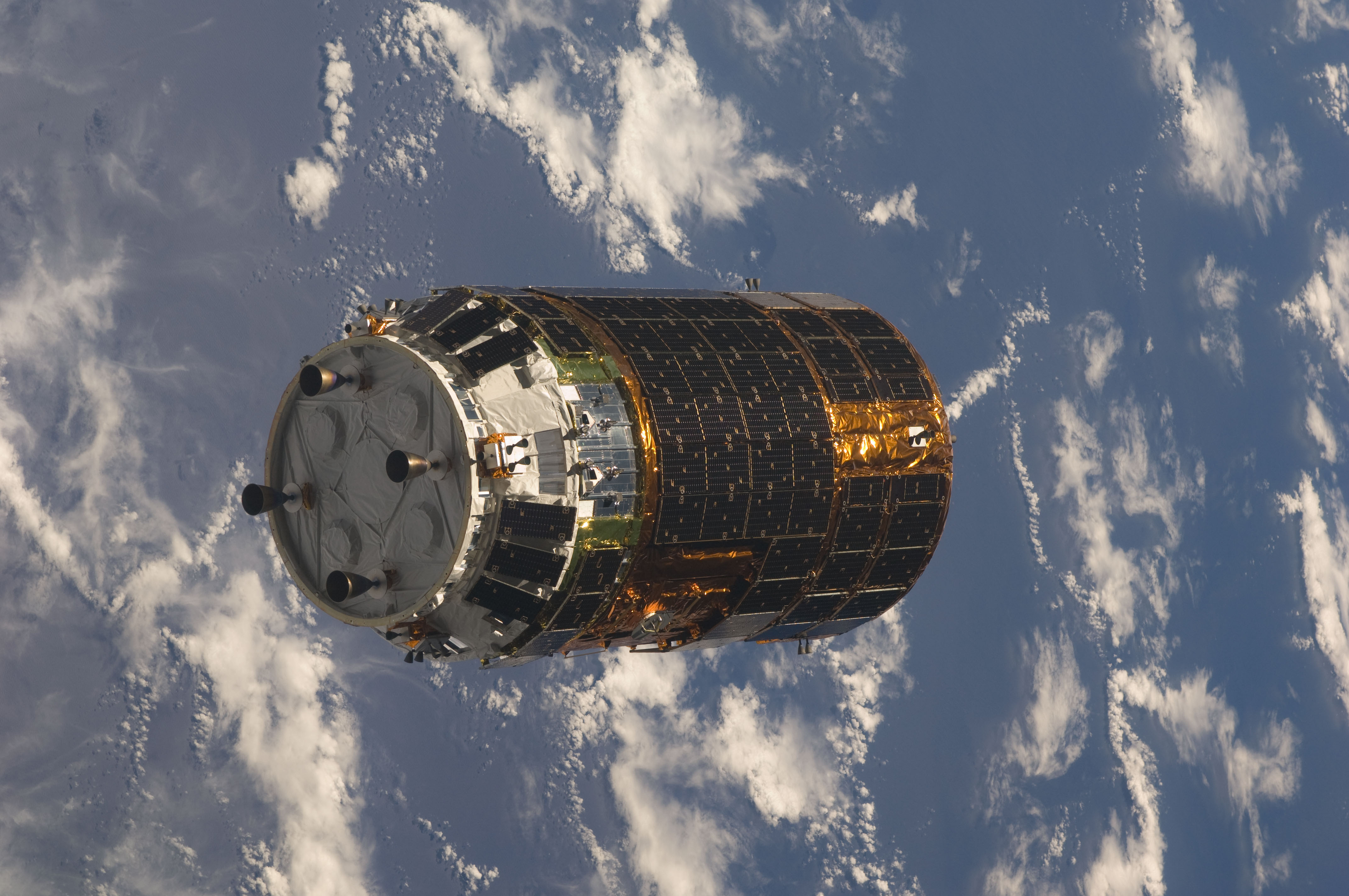 Backdropped by a blue and white part of Earth, the unpiloted Japanese H-II Transfer Vehicle (HTV) approaches the International Space Station.